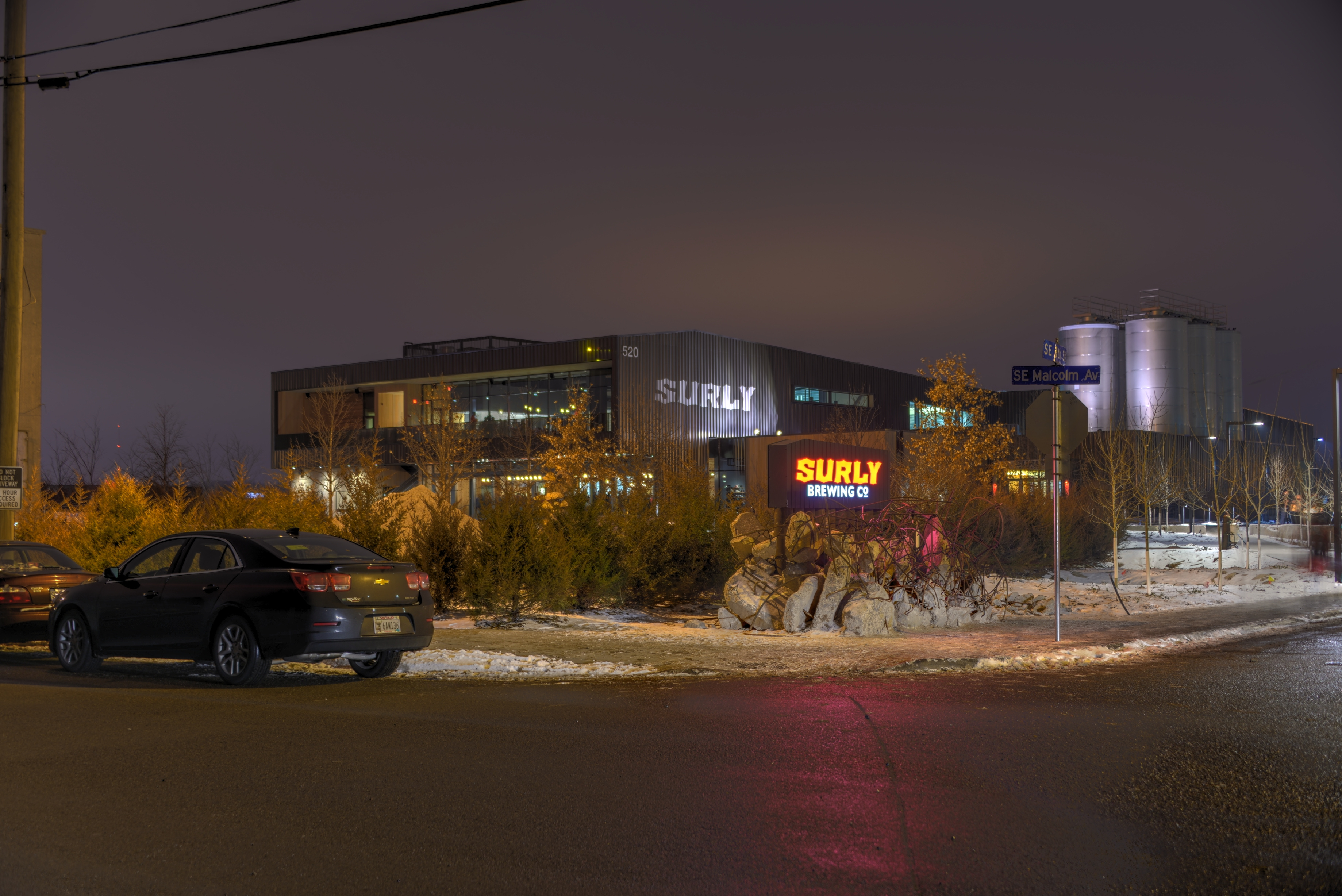 The Surly destination brewery in Southeast Minneapolis on the night of its grand opening.